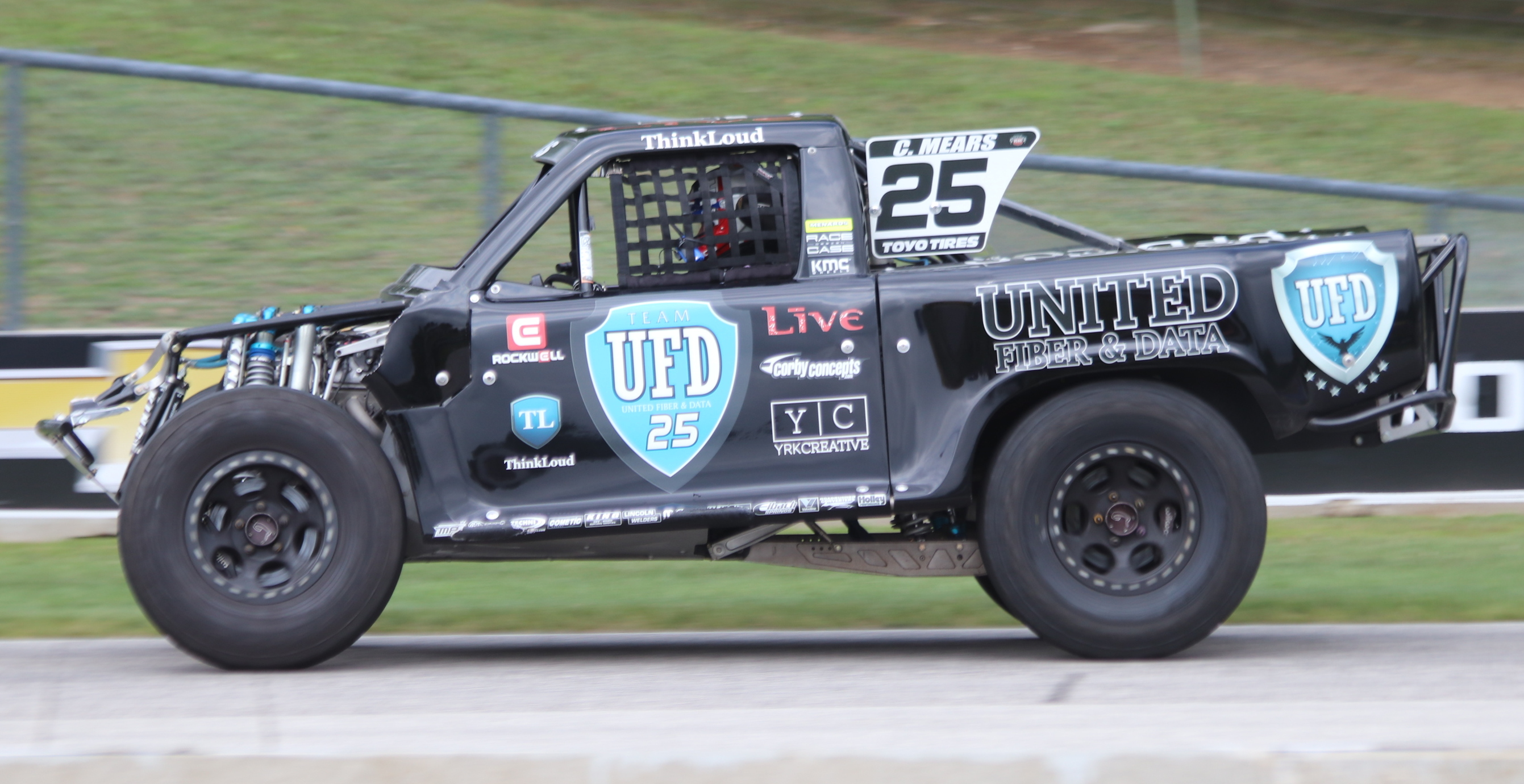 The 2018 Speed Energy Formula Off-Road truck of Casey Mears at Road America